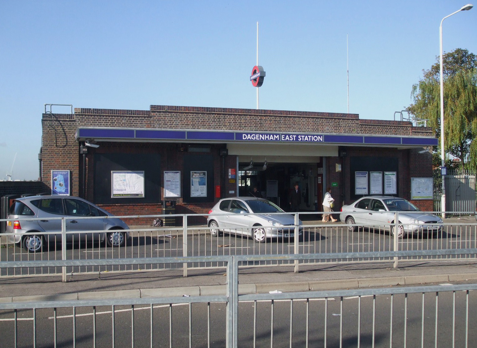 Dagenham East tube station